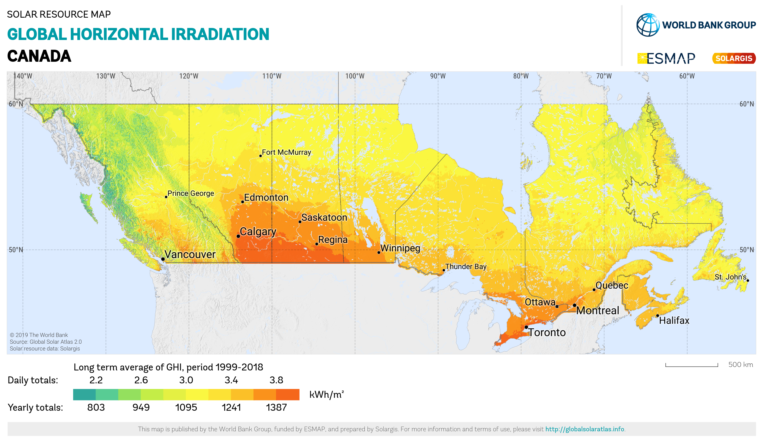 Global Horizontal Irradiation of Canada